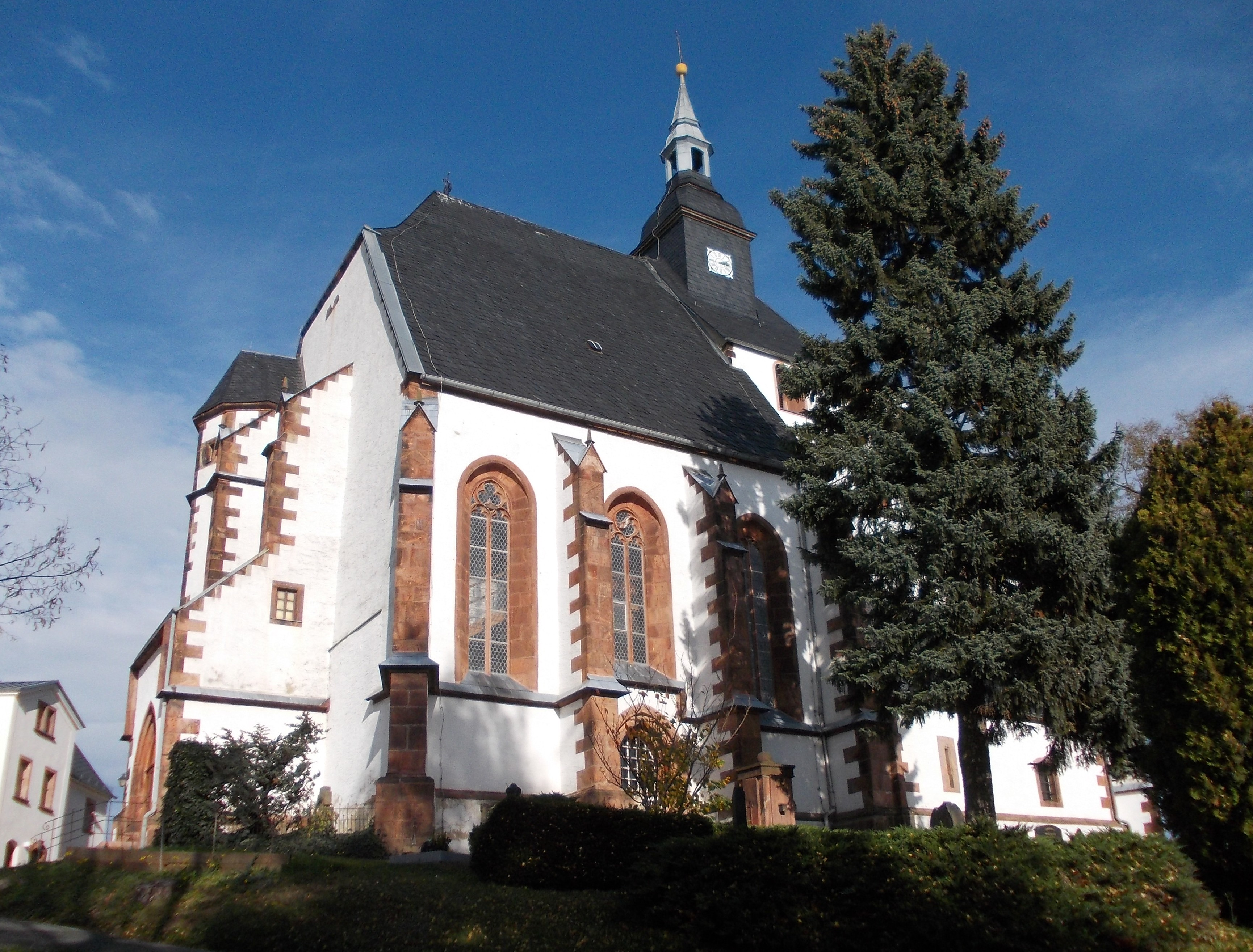 St. Mary's Church of Wickershain (Geithain, Leipzig district, Saxony)